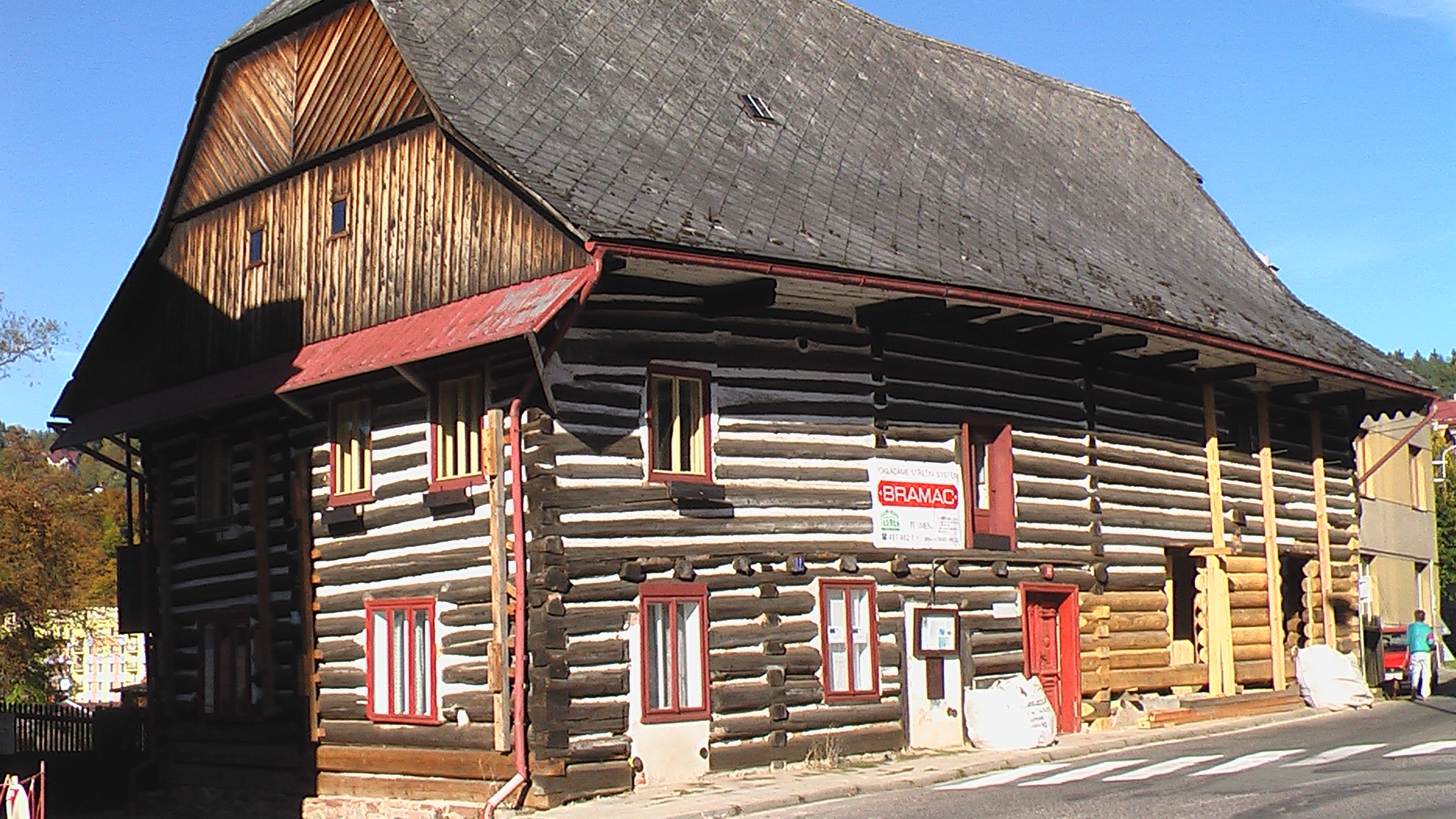 Dřevěnka - Timbered wooden structure in Úpice, Czech Republic